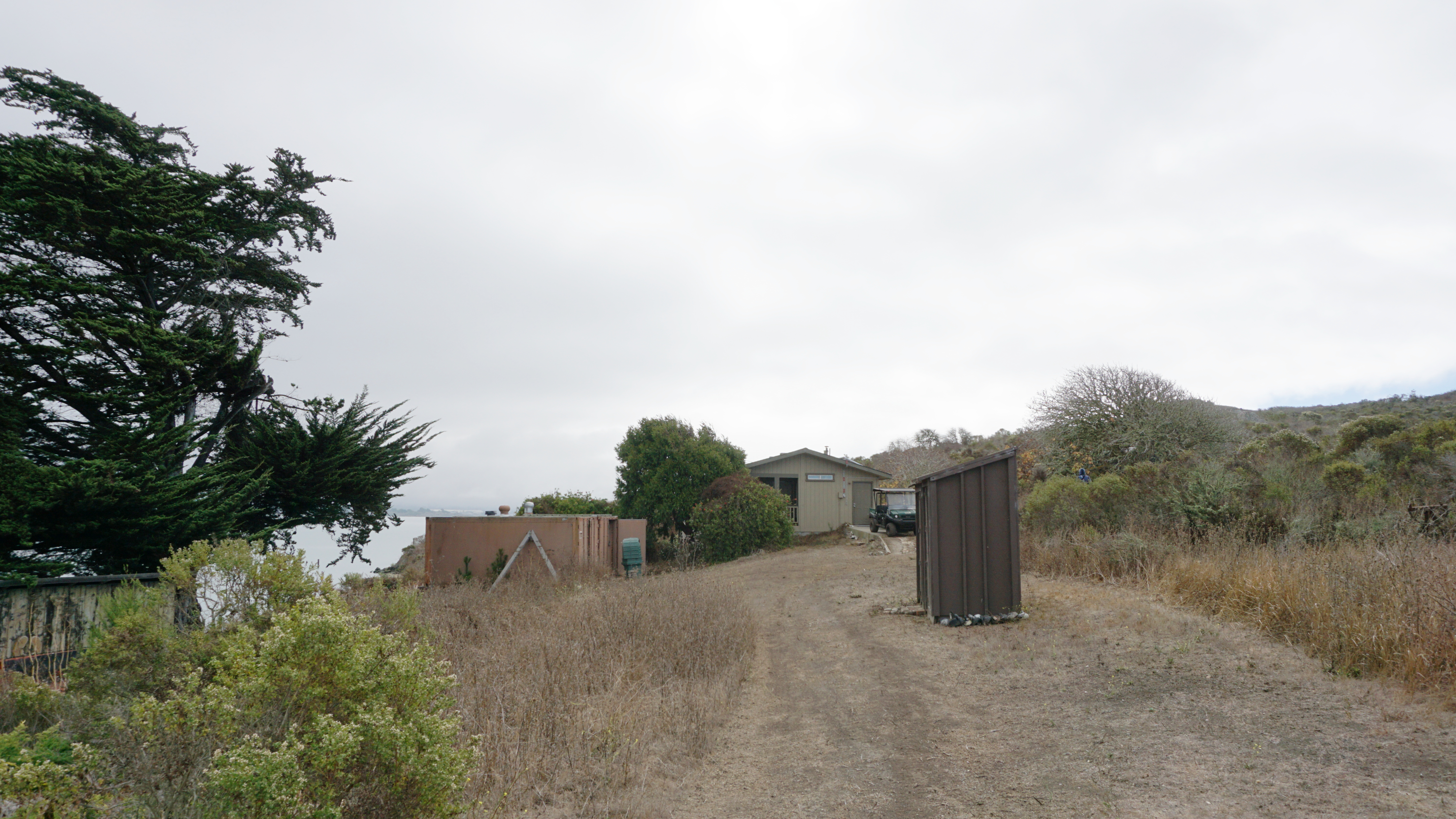 This is the residence of the full-time caretaker on Brooks Island. The caretaker lives there 365 days a year and is fully off the grid. Solar provides power, chemical toilets for facilities, and a capped freshwater spring for water.